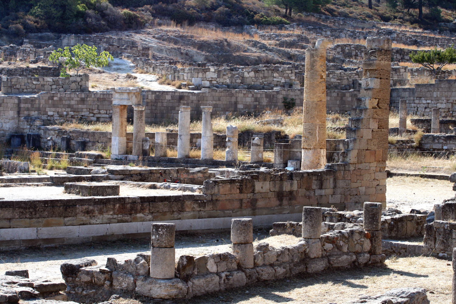 Excavations of old Rhodes town Kámiros destroyed by earthquake